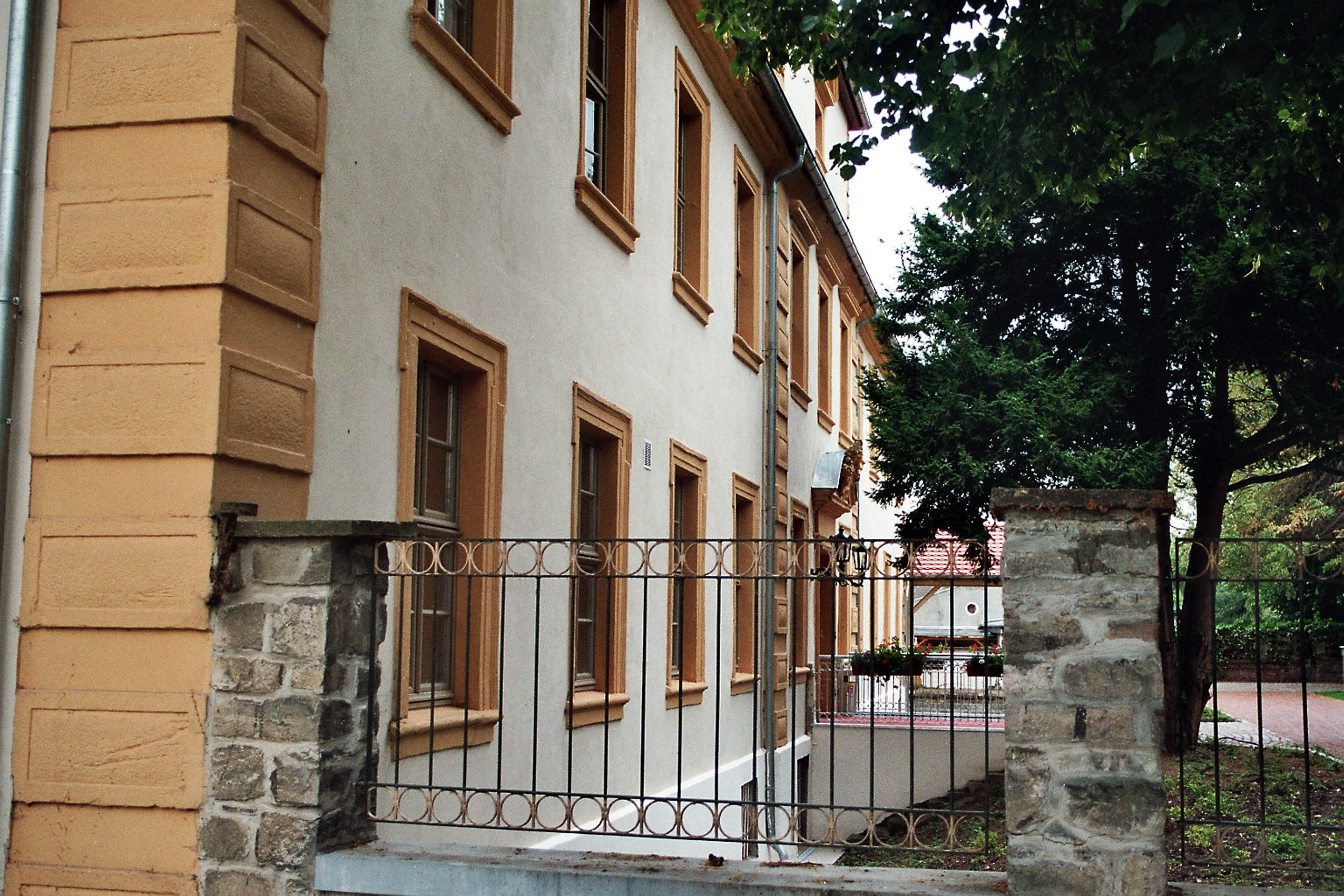 Hecklingen, the palace